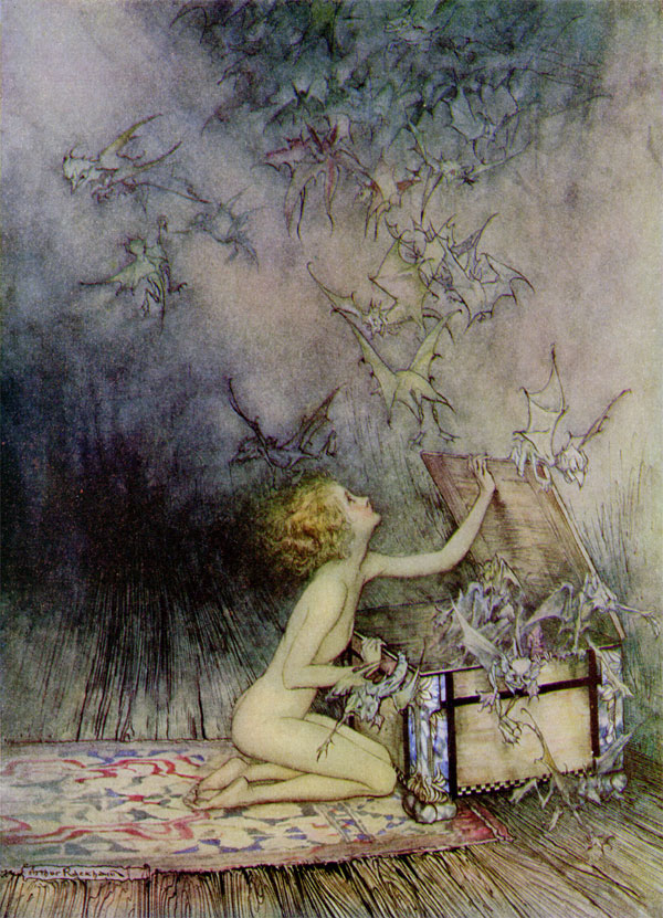 A sudden swarm of winged creatures brushed past her...